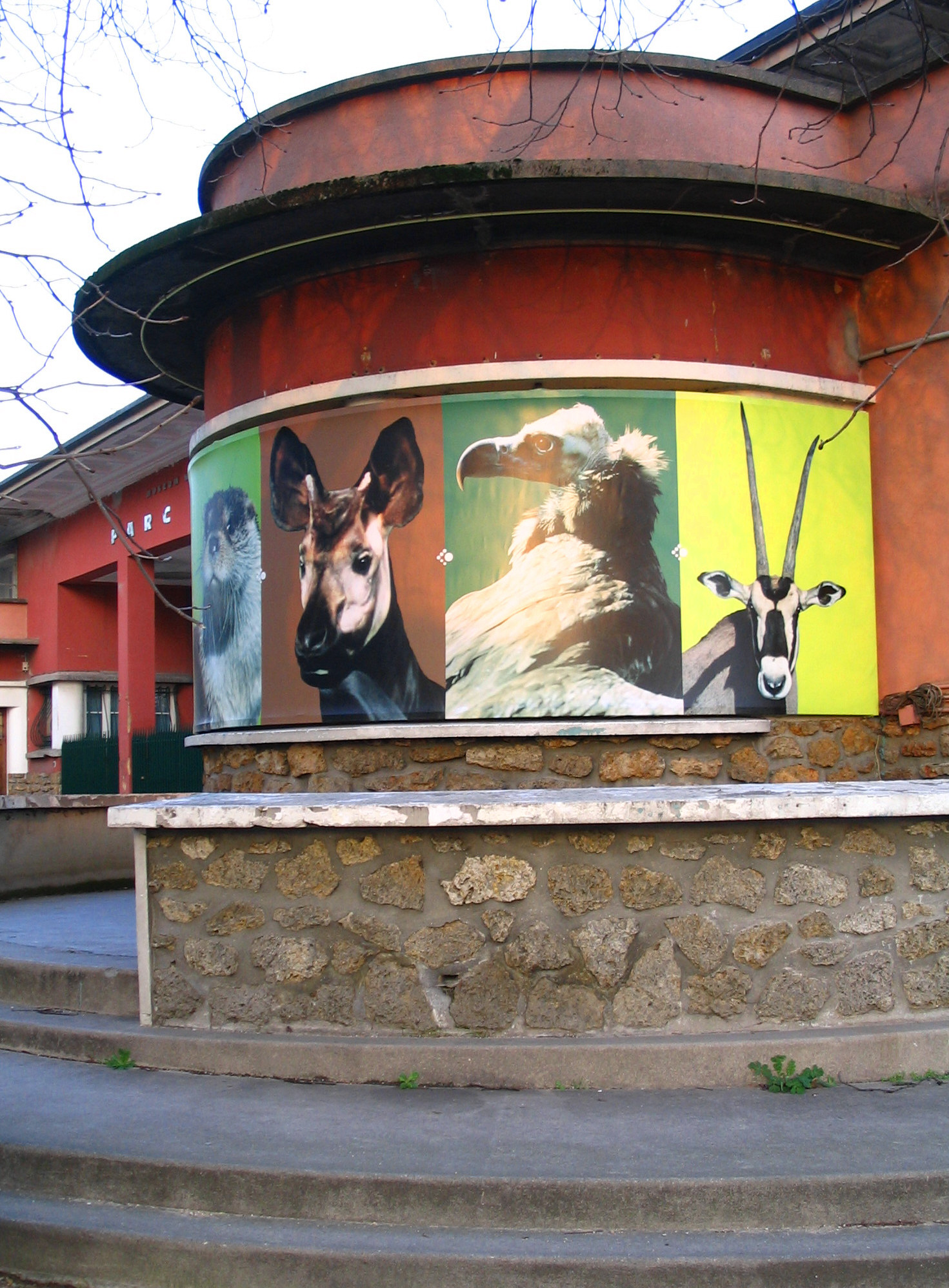 Entrance of zoo de Vincennes, Porte Dorée side. Art déco style. It has been demolished in 2012. Paris XIIe, Ile de France, France.